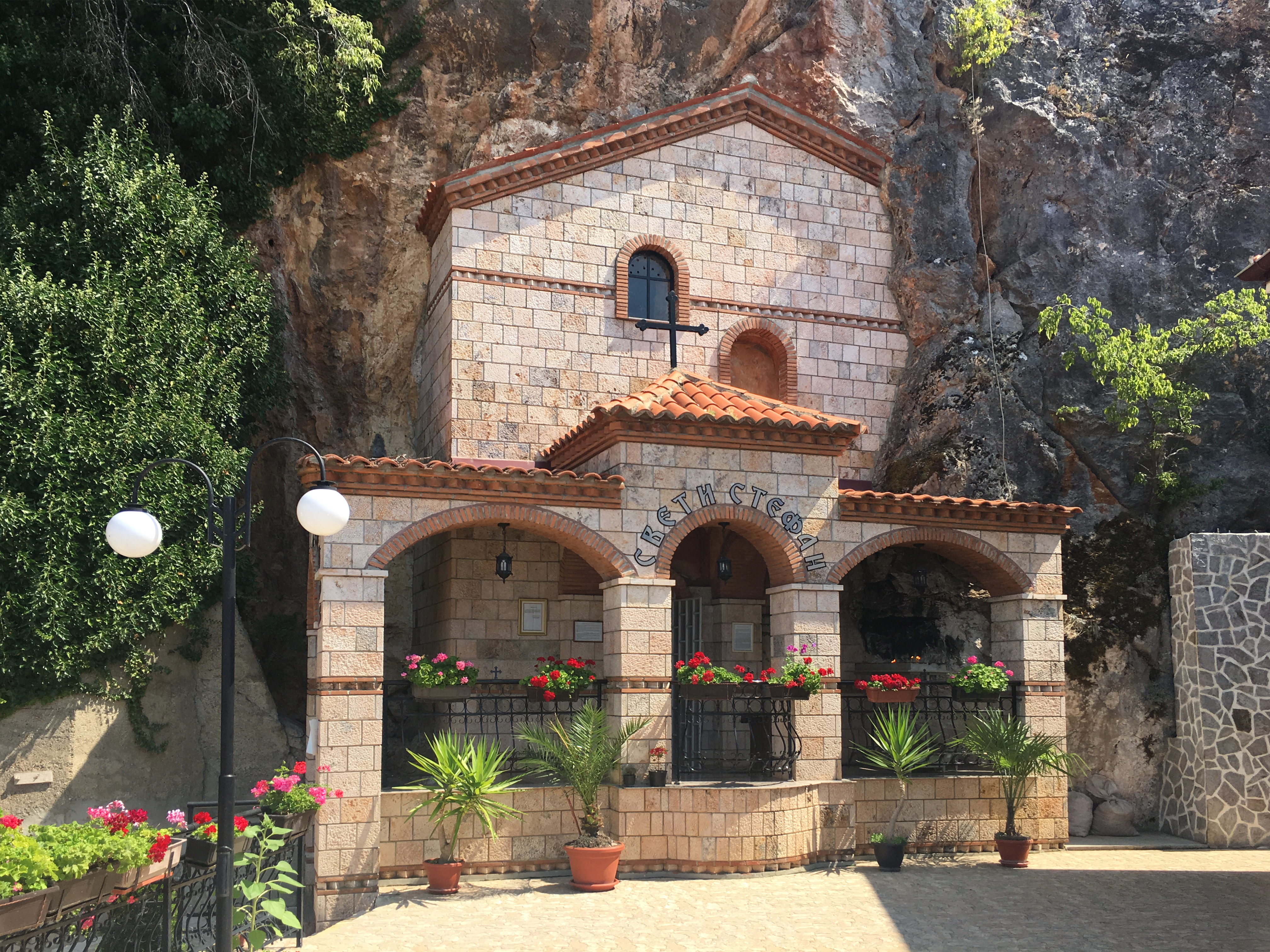 St. Stephen's Church of the Šipokno Monastery